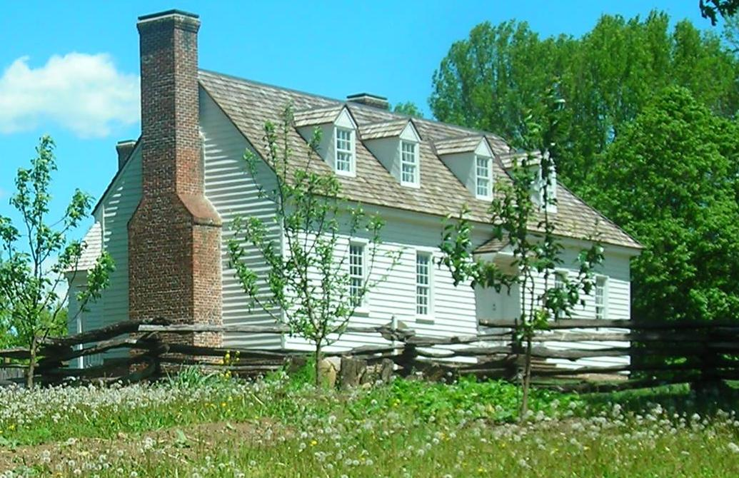 photo of smithfield exterior